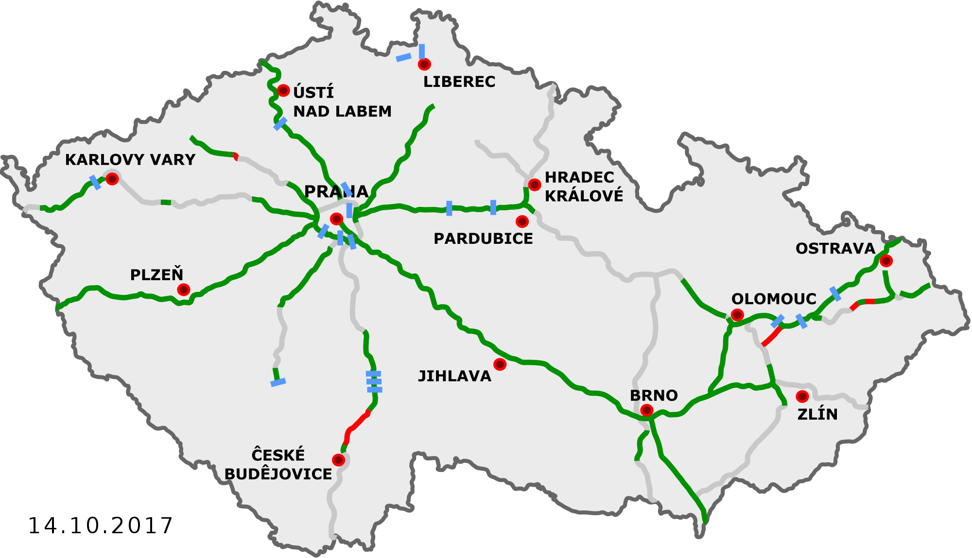 Map of wildlife overpasses on the motorways in the Czech republic.